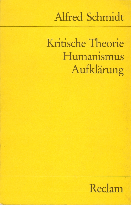 Cover of Alfred Schmidt: Kritische Theorie, Humanismus, Aufklärung (Stuttgart 1981) = Reclam Universal-Bibliothek, vol. 9977.